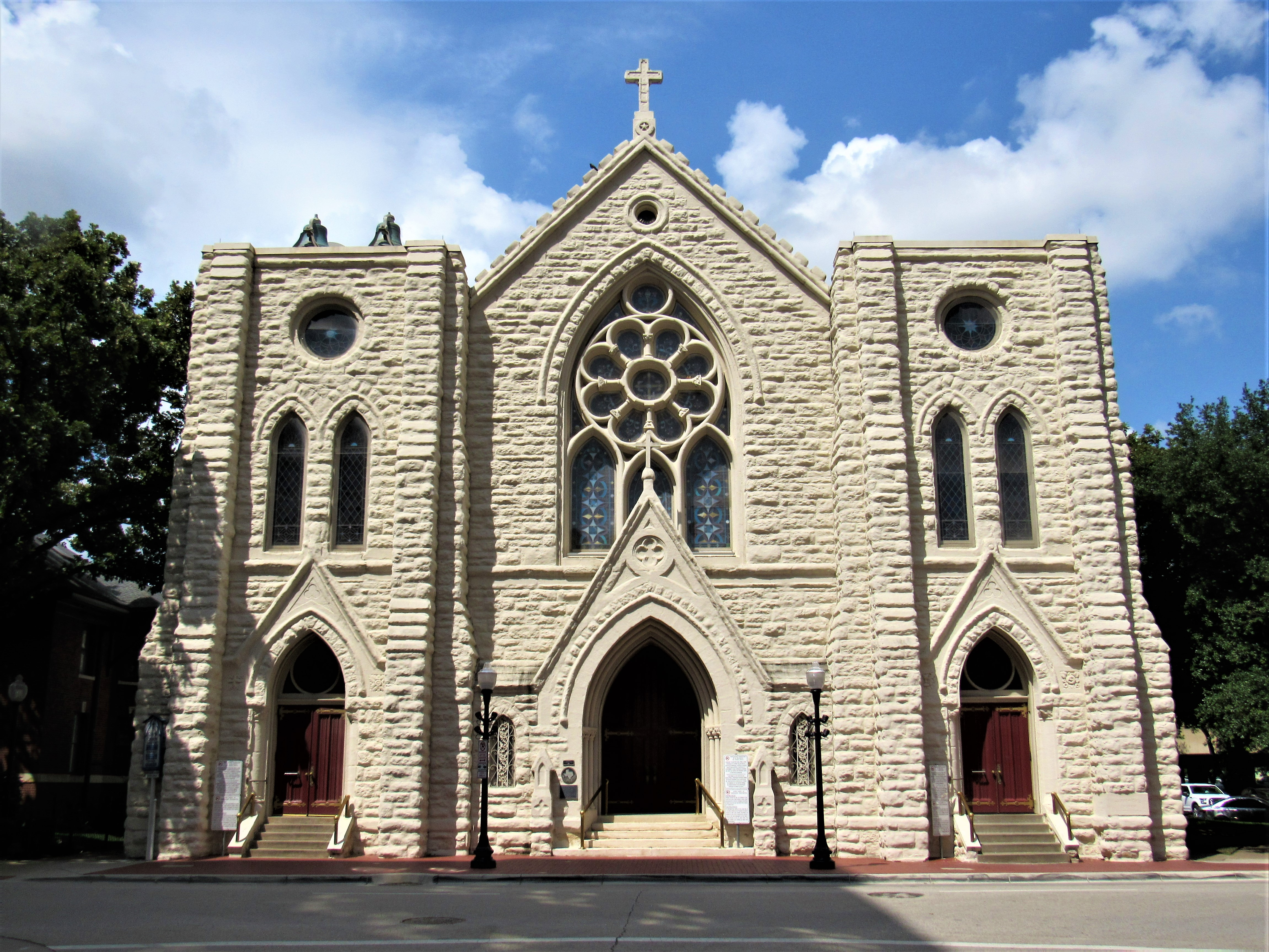 St. Patrick Cathedral in downtown Fort Worth, Texas.